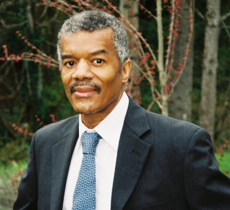 Bestselling author R. Barri Flowers at Michigan State University